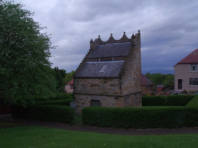 Westquarter Dovecote. Built for the long demolished Westquarter House some 150 years ago this building is a little out of place in a modern estate.